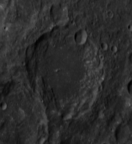 Oblique view of Hertz, on the far side of the moon. North is at top.